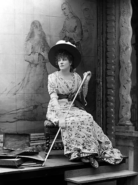 Sarah Bernhardt as Floria Tosca in Sardou's play La Tosca(Act 1)